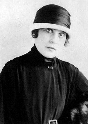 Portrait of Lilya Brik, 1914.